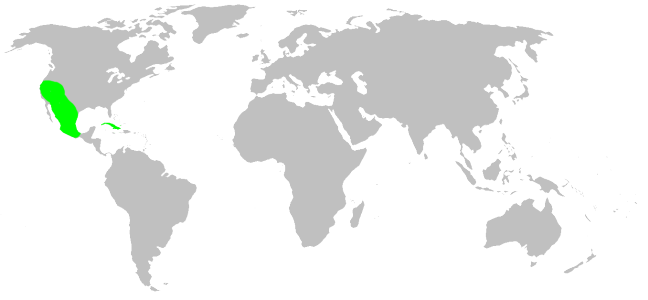 Plectreuridae habitat distribution, drawn after Platnick: World Spider Catalog 7.0. This is not a precise rendering of the distribution! If you have better information, please replace this map, or send me the info, and i will redraw it.